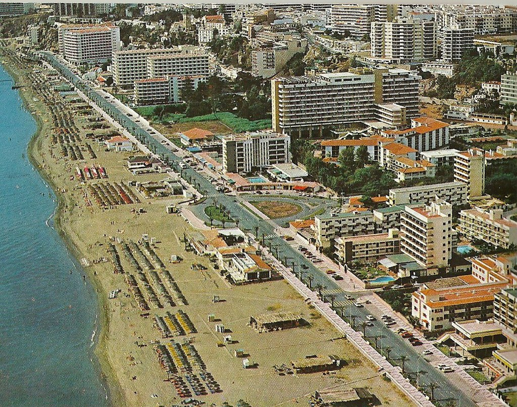 Torremolinos, Malaga, Spain... 1983